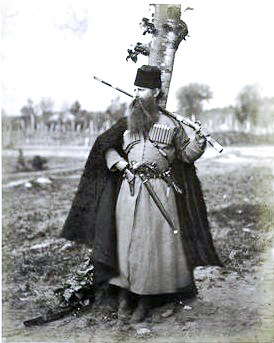 Imeretian